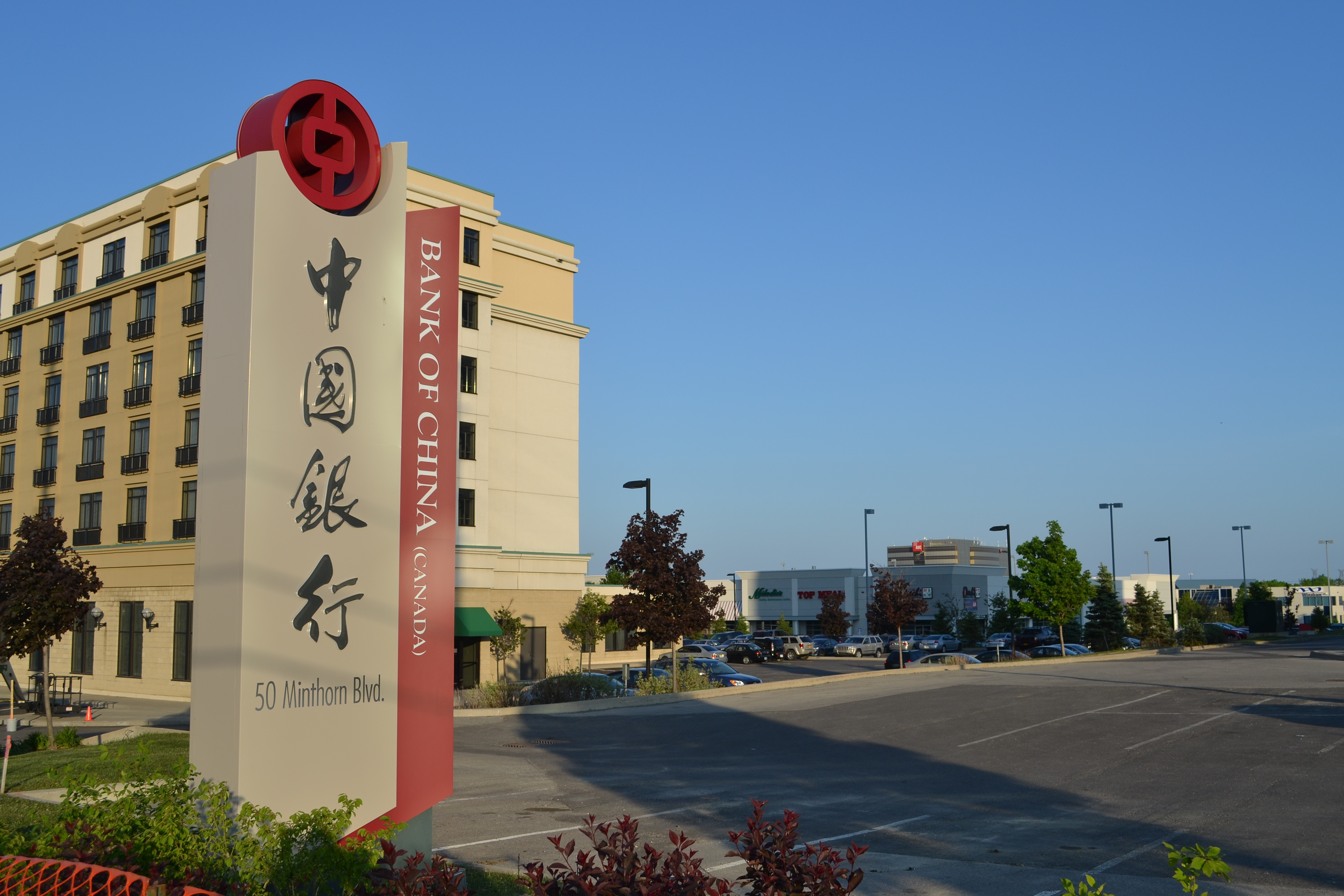 Bank of China, Markham